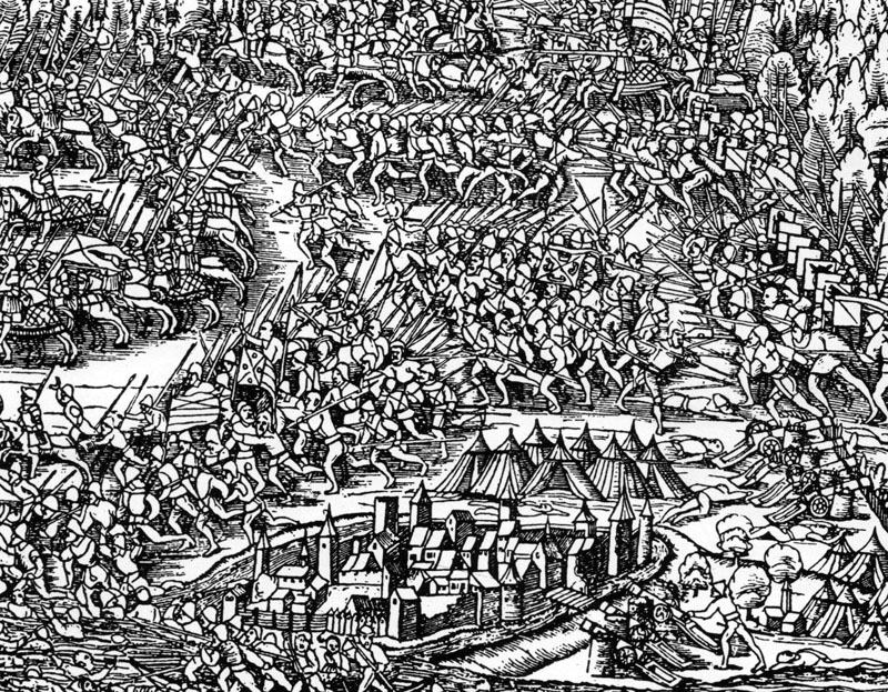 The battle of Murten, part of a woodcut from the cronicle of Stumpf 1548